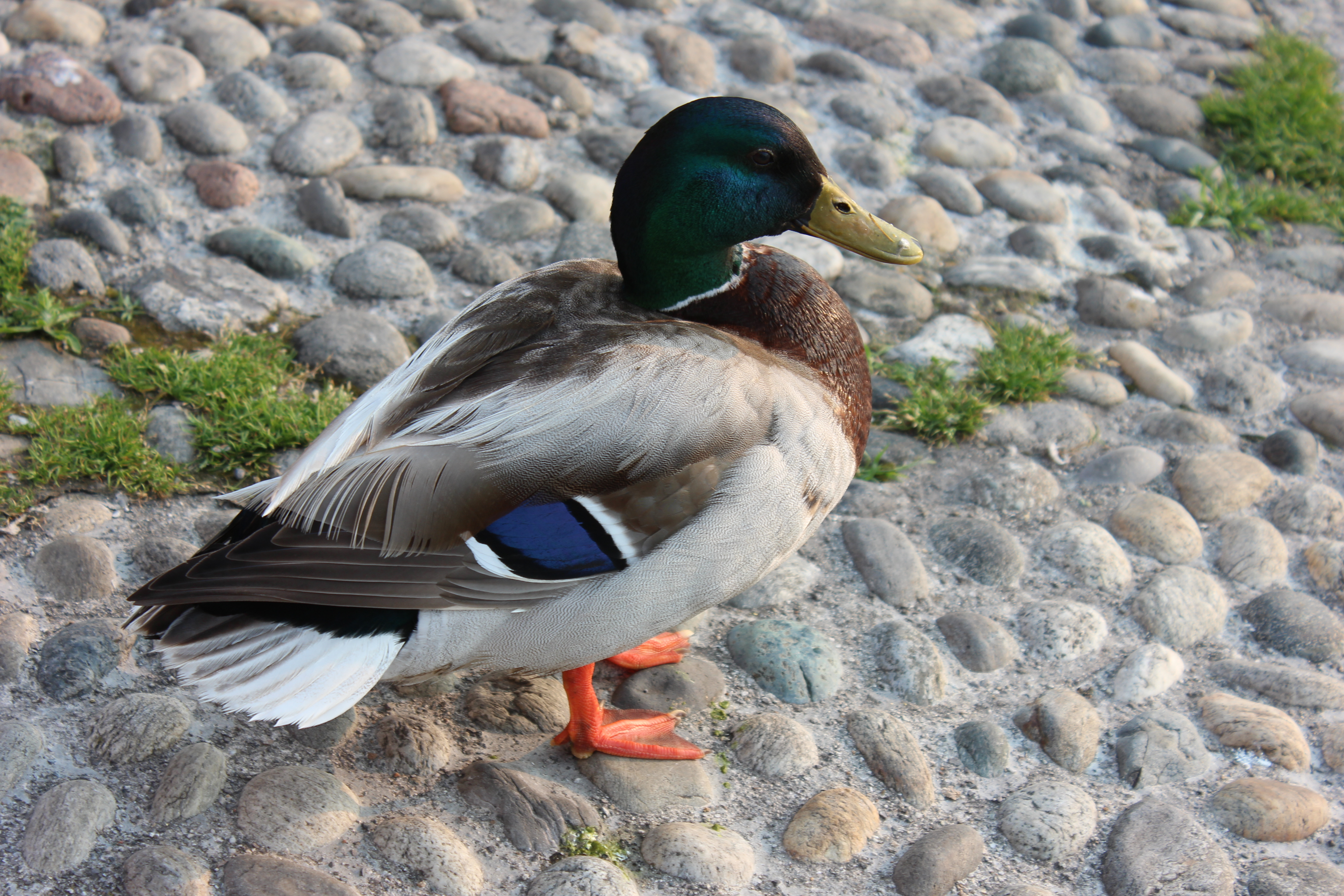 Male mallard at Varenna, Lake Como, Italy.